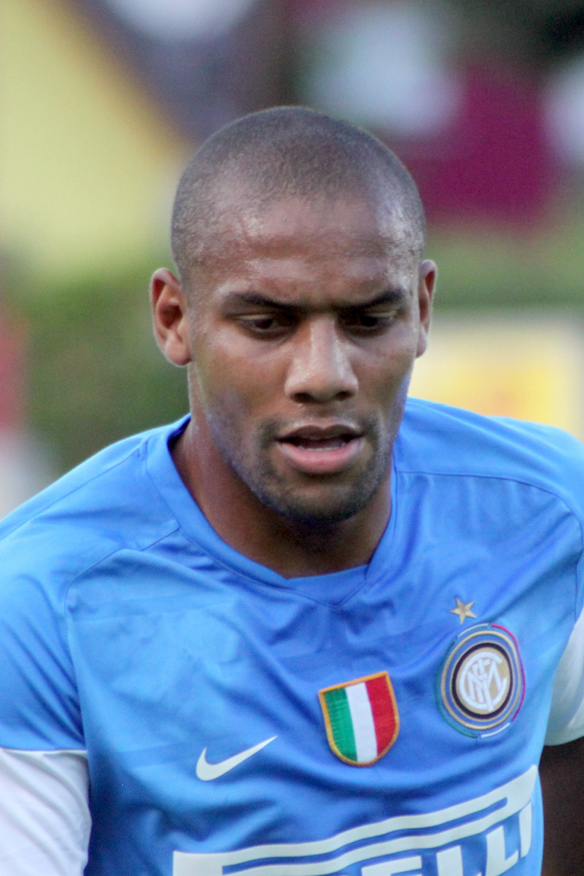 Maicon Douglas Sisenando - F.C. Internazionale Milano.